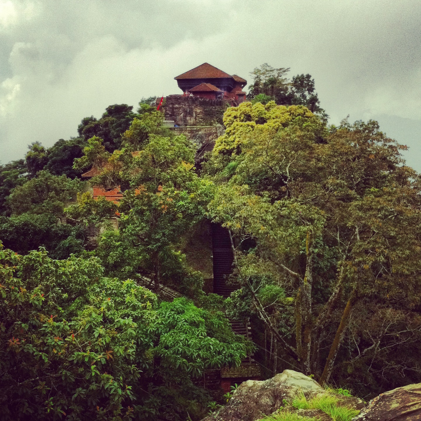 Ghorkha Palace